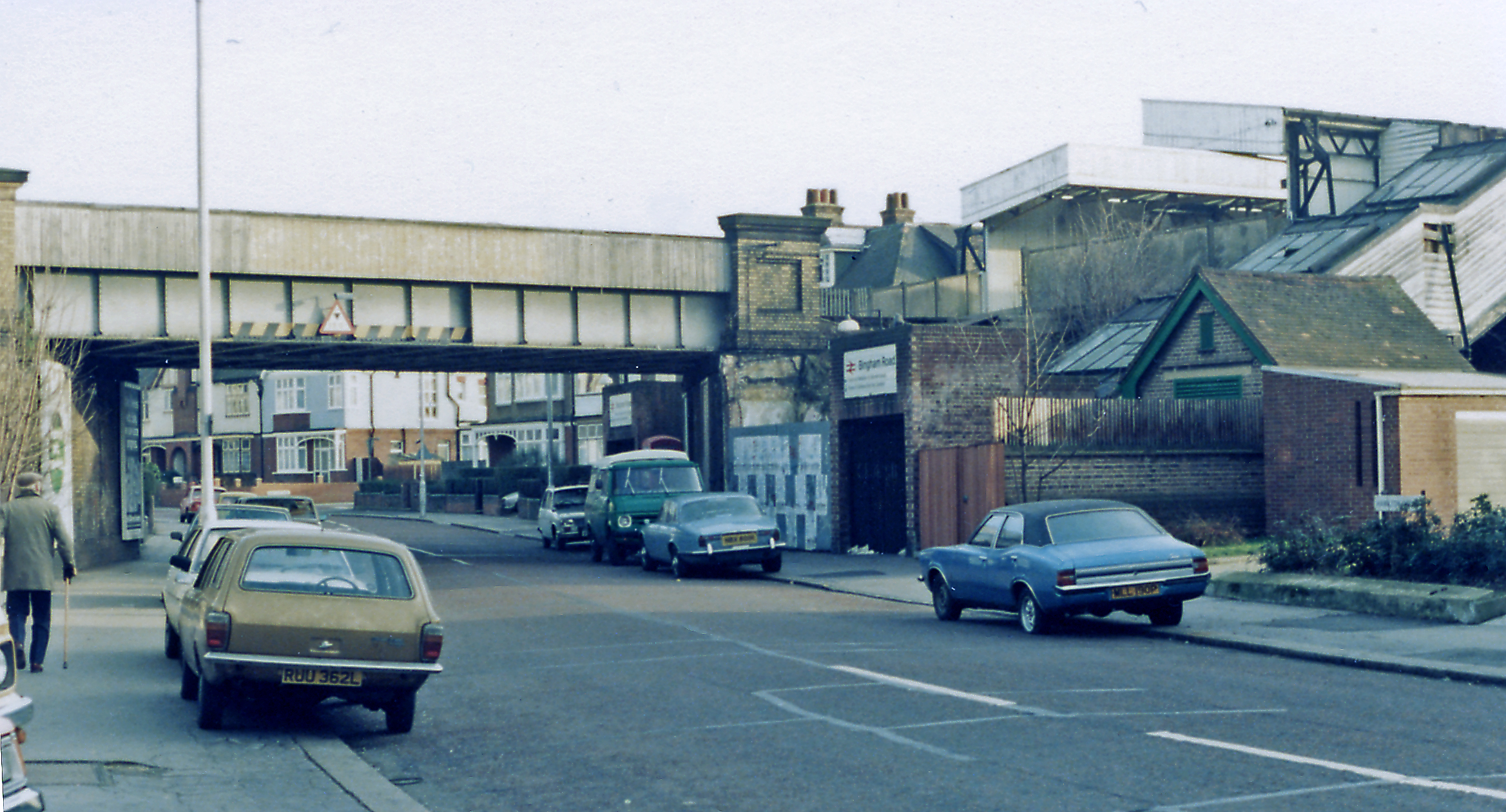 Bingham Road station, Addiscombe, 1983. View westward on Addiscombe Road: ex-SE&CR Woodside - Sanderstead line, closed 15/5/83; Woodside and London are to the right, Sanderstead to the left.